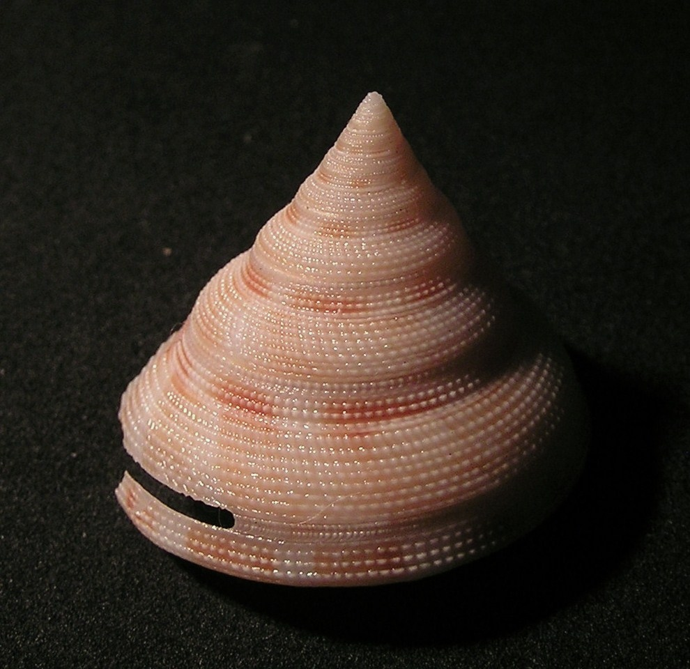 Mikadotrochus caledonicus (Bouchet & Métivier, 1982); family Pleurotomariidae; new Caledonia